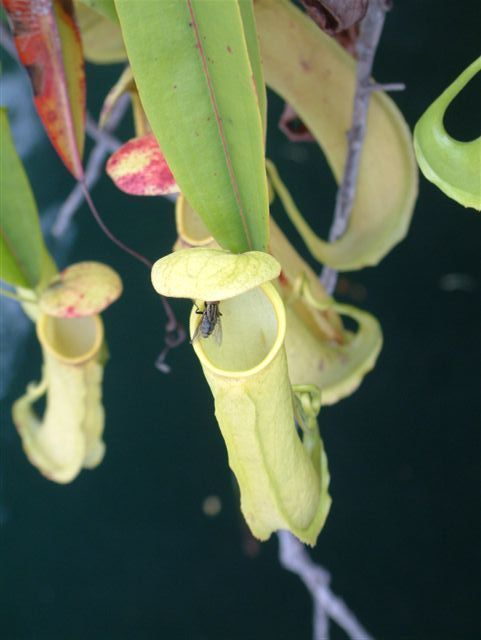 Unidentified Nepenthes from Raja Ampat, New Guinea (possibly Nepenthes neoguineensis or Nepenthes papuana)